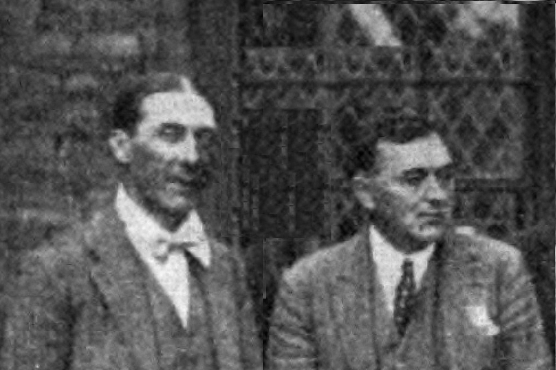 Martin and Geoffrey Shaw at the Summer School of Church Music, Diocesan Training College, Fishponds, Bristol, Sep 12-16, 1921.